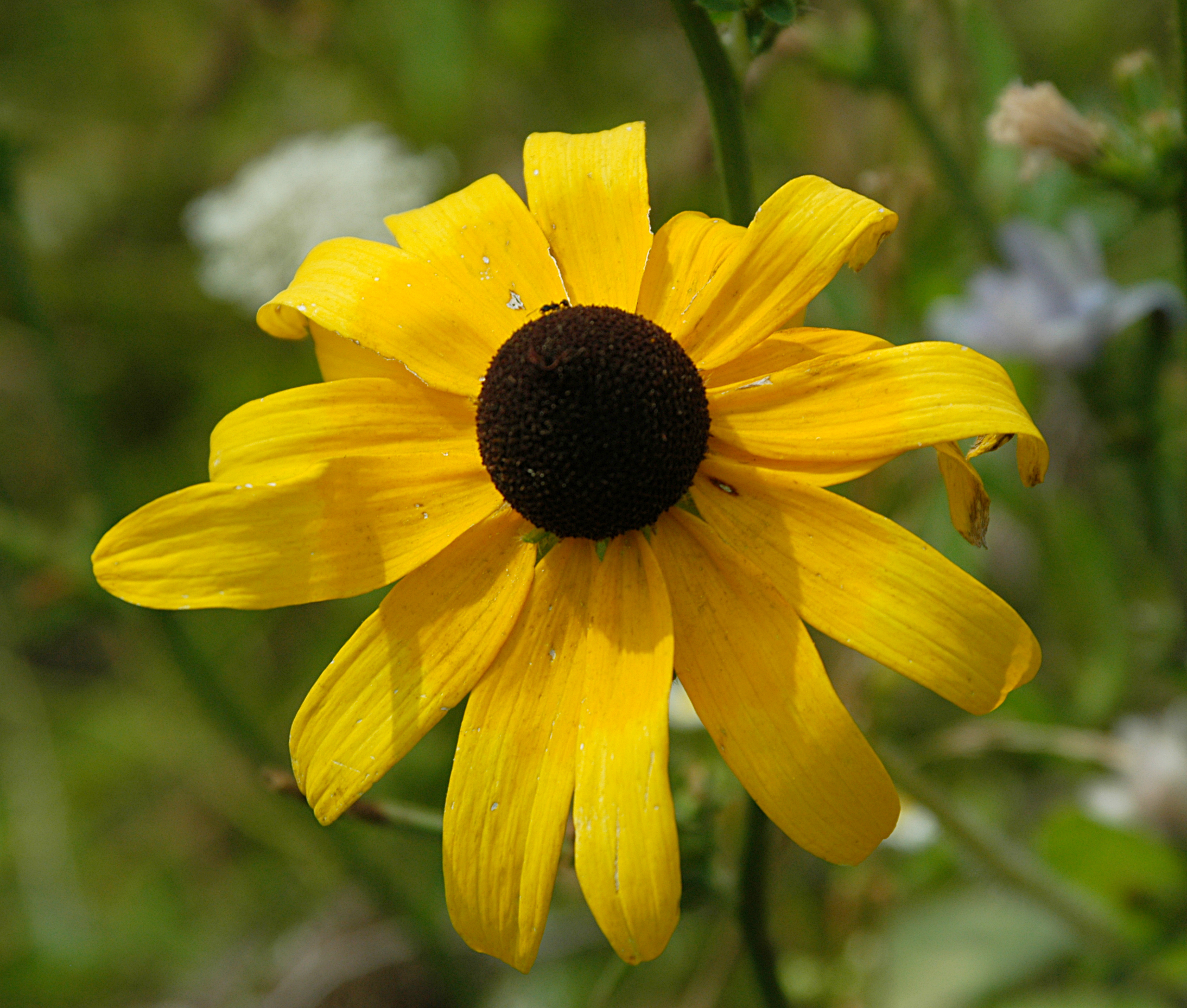 Black-eyed Susan blossom.